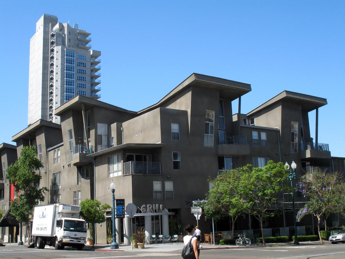 Little Italy, San Diego